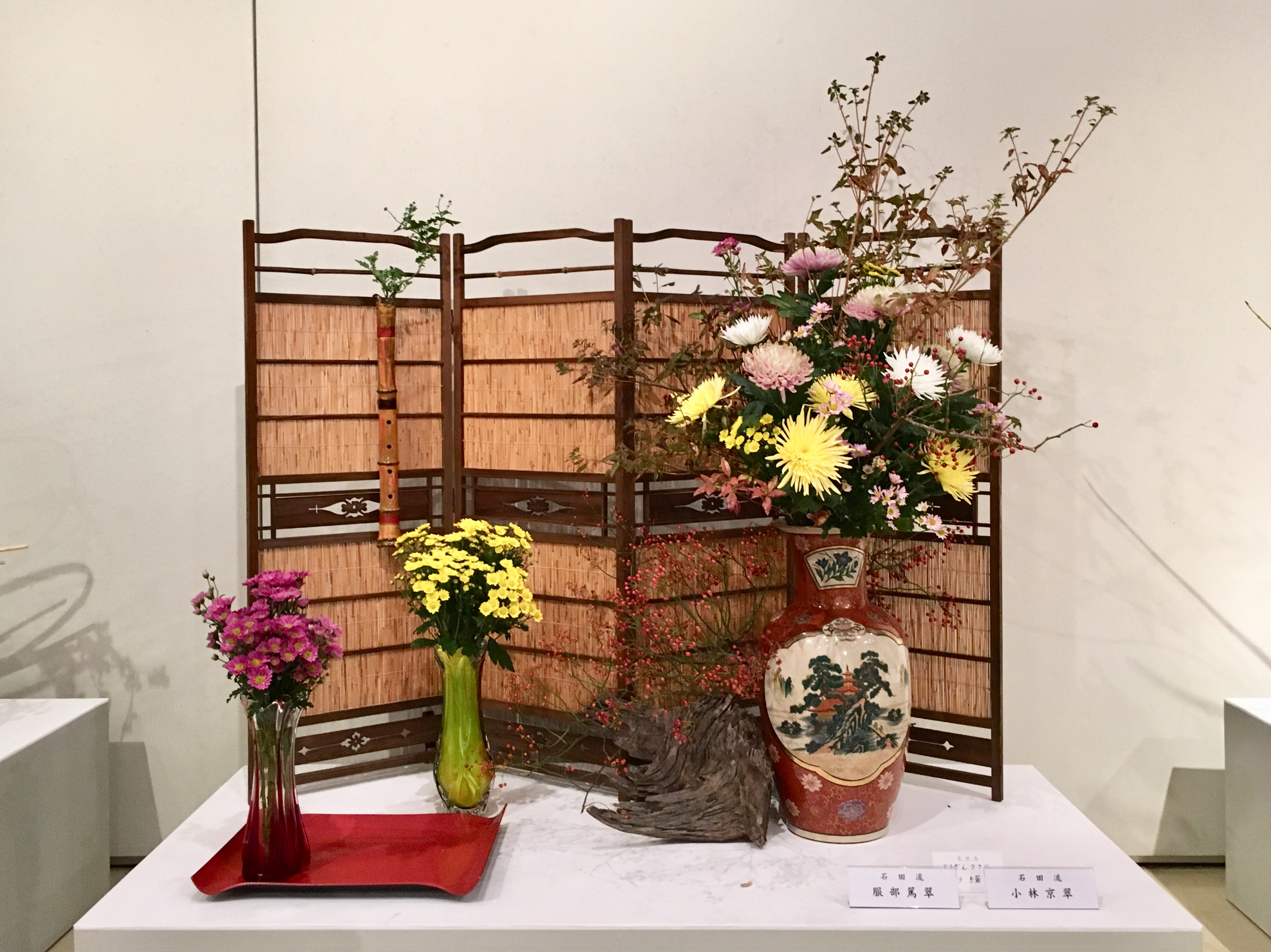 Ikebana flower arrangement from the Ishida-ryū (石田流) by 服部 篤翠 and 小林 京翠 at the Nagoya Ikebana Art Exhibition held at the Citizens' Gallery Sakae, November 2018.